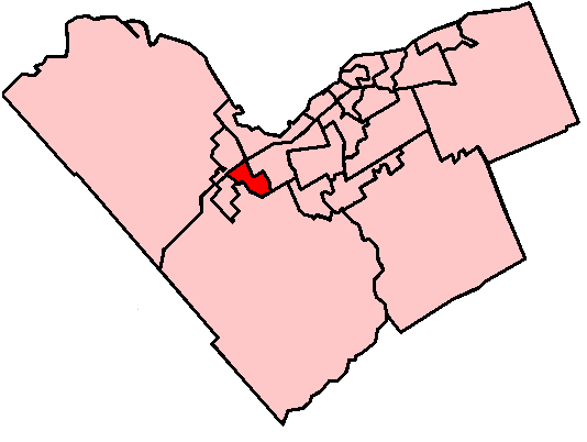 Map showing Kanata South